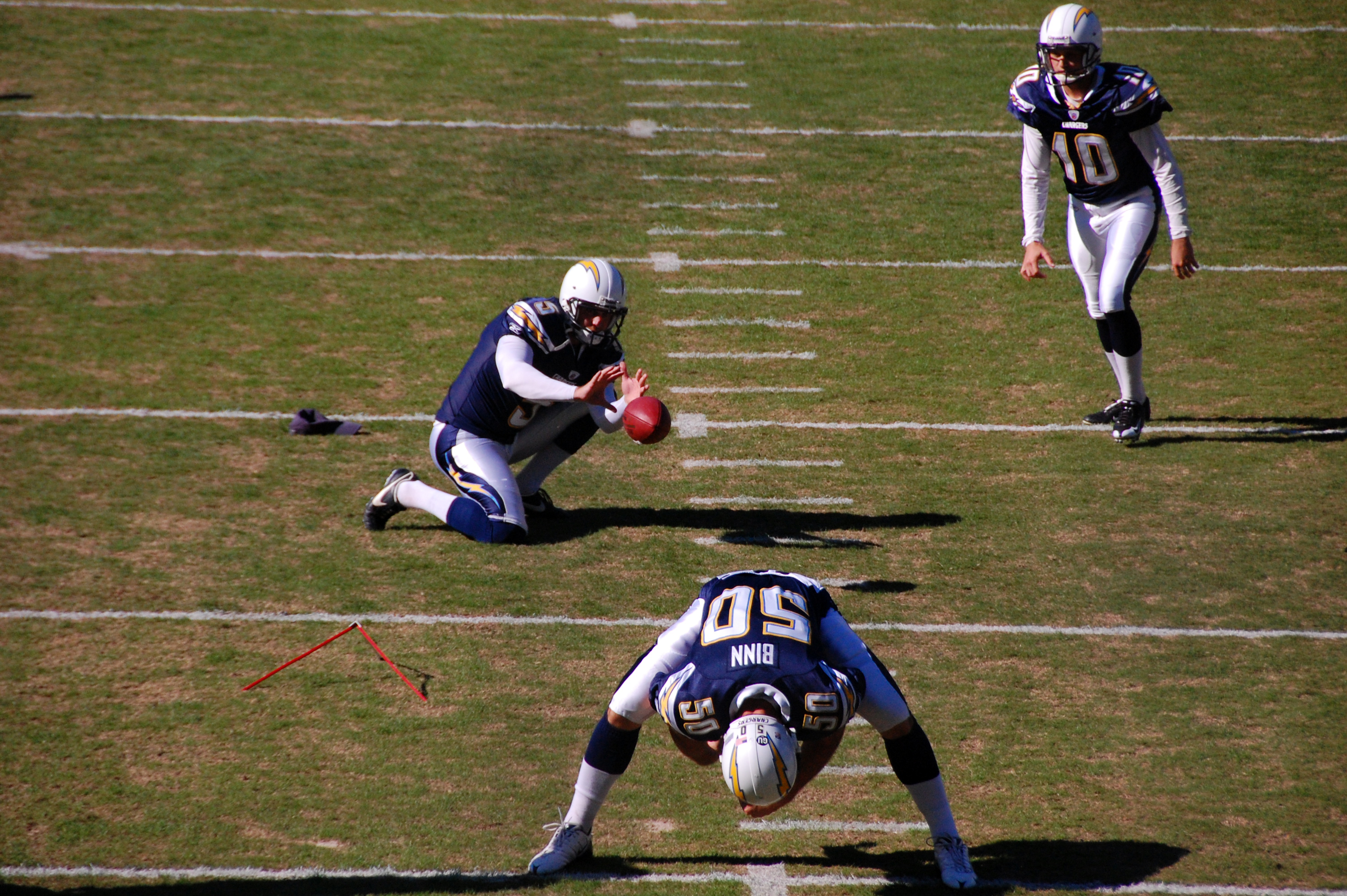 Didn't realize that Dave Binn's been there since the Super Bowl against the 49ers